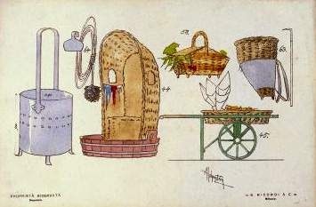 Description: Prop designs for Act II of La bohème for the world premiere performance, Teatro Regio di Torino, 1 February 1893. Artist: Adolf Hohenstein (1854-1928) Provenance: Museo Teatrale alla Scala.